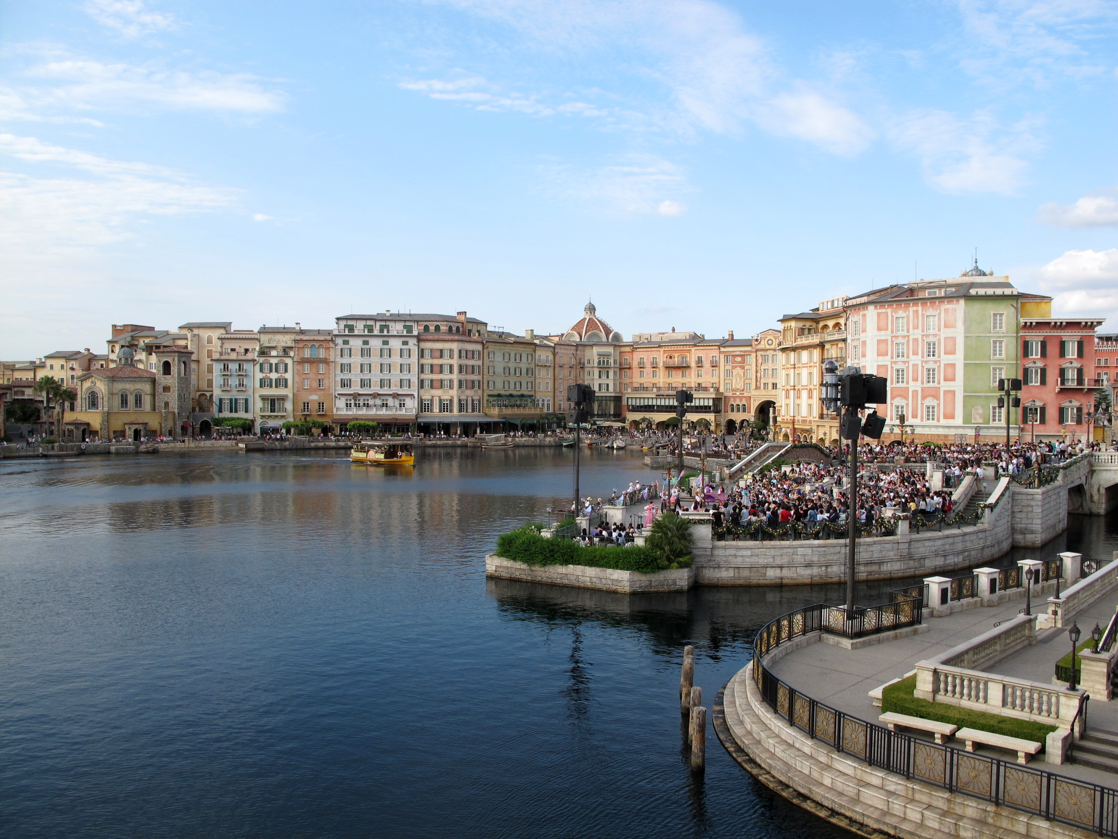 Tokyo DisneySea Mediterranean Harbour